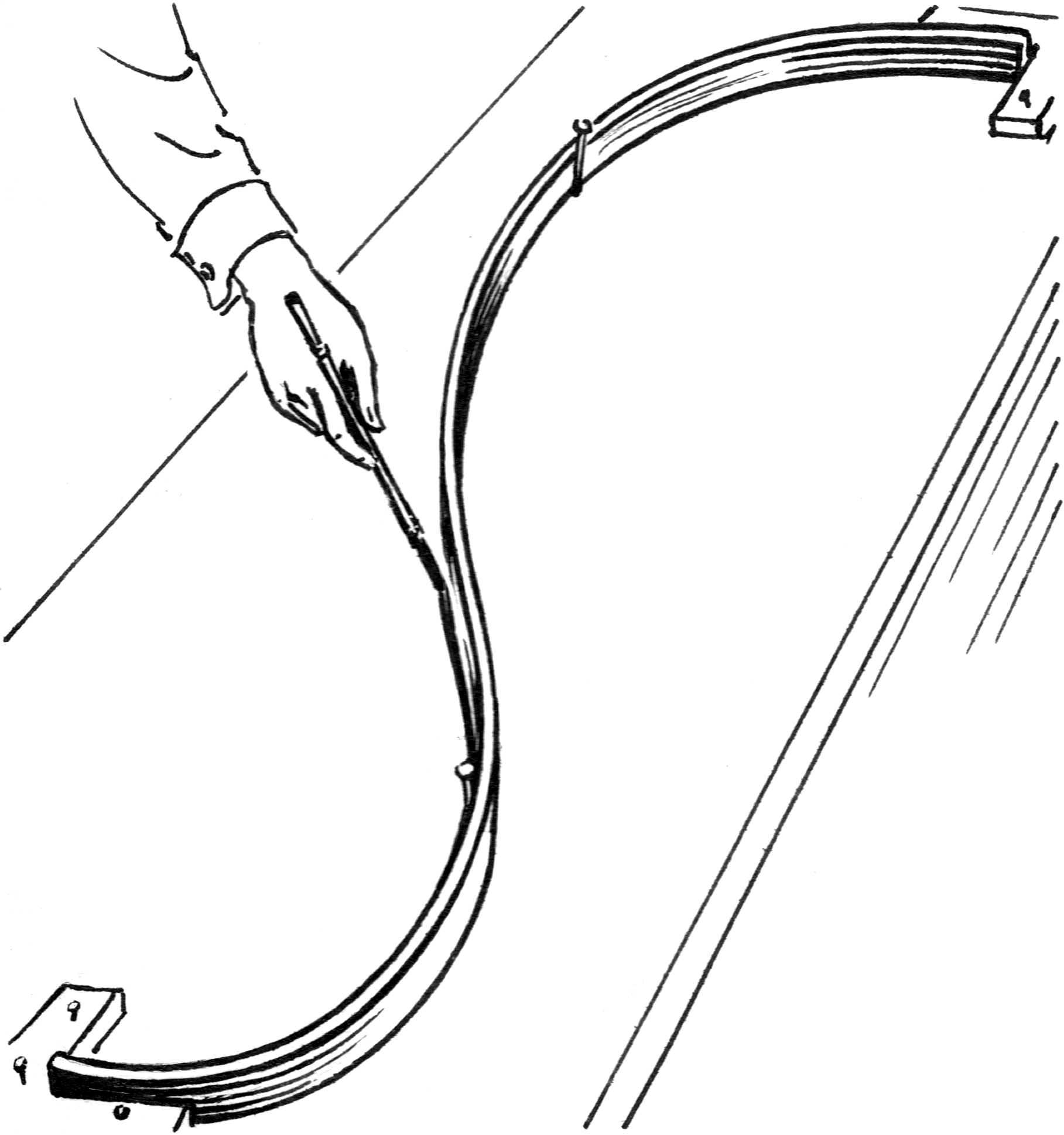 Line-art drawing of a spline.